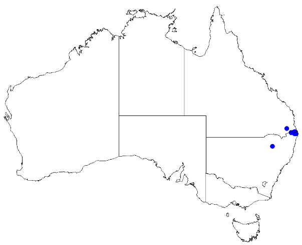 Wahlenbergia scopulicola occurrence data from Australasian Virtual Herbarium downloaded 12 May 2019 (no DOI)